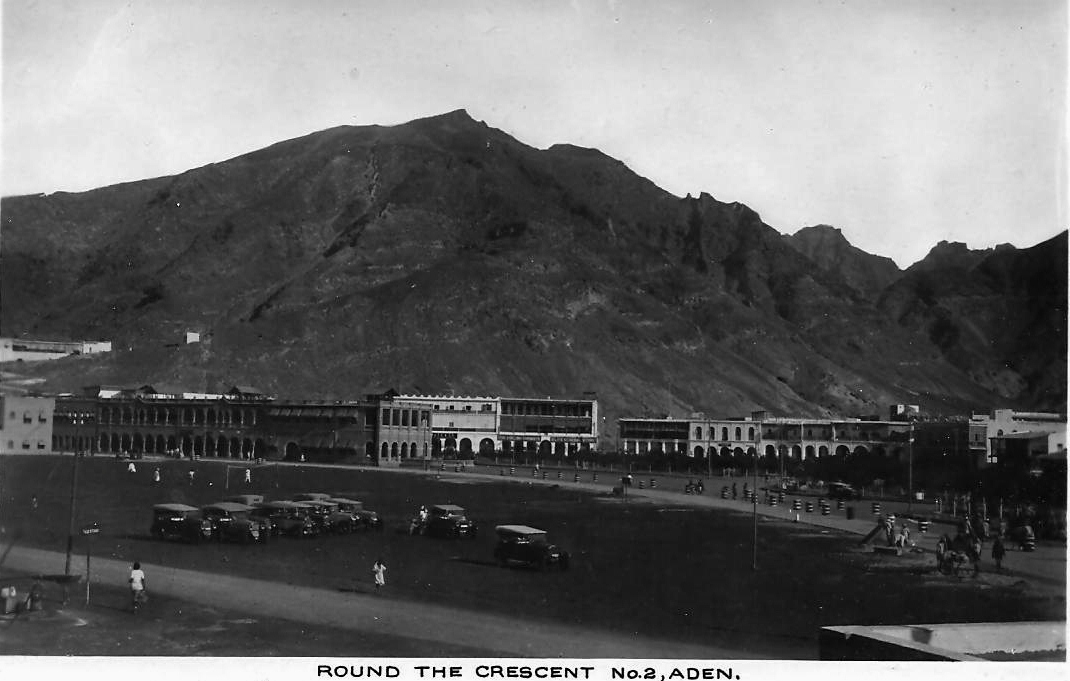 Postcard of Aden, nr 2